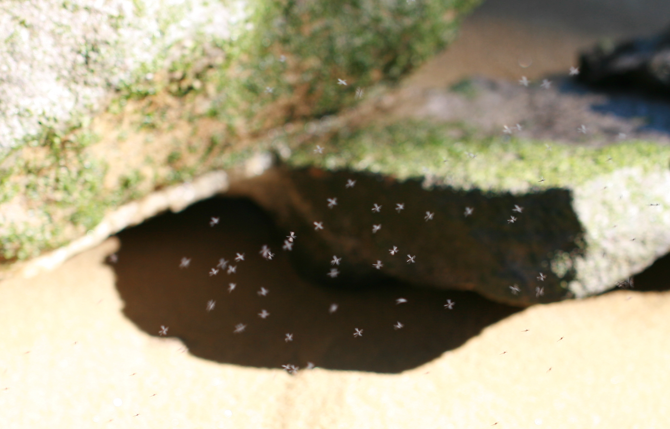 Sandflies in Georges River National Park, New South Wales, Australia.